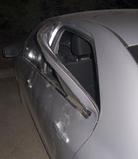 Image of a car door torn off by a Black Bear (Ursus americanus) — in Yosemite National Park.